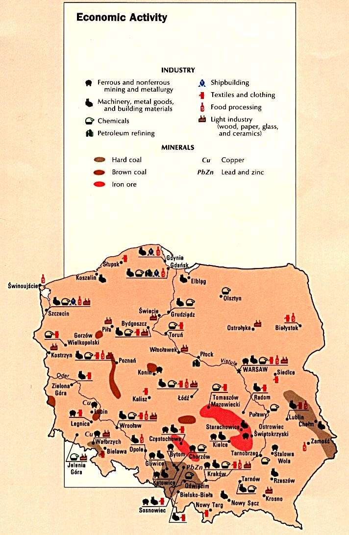 Thematic map: Economic activity in Poland